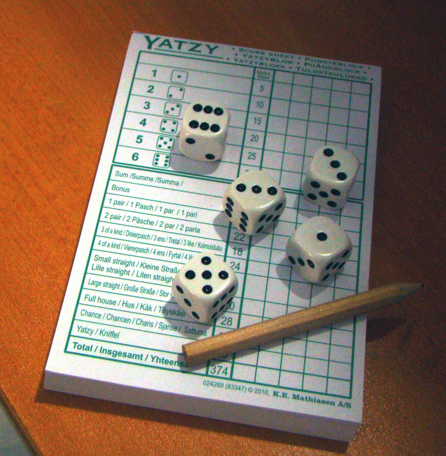 image of Yatzy Score card with dies